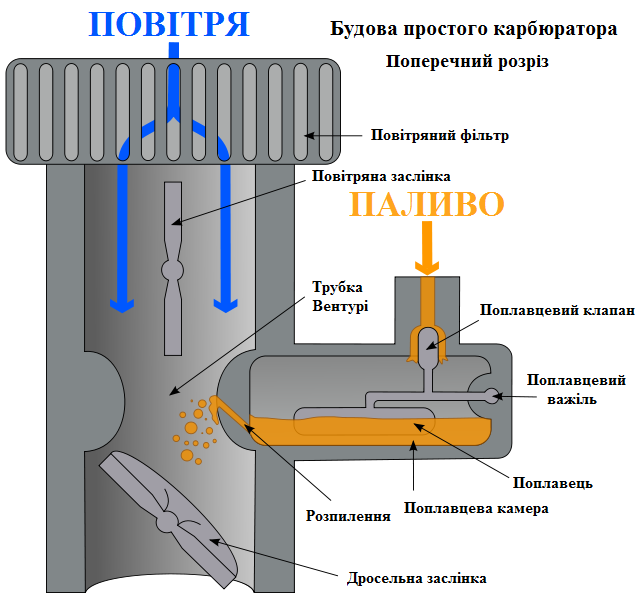 Basic carburetor, cross section (in Ukrainian)